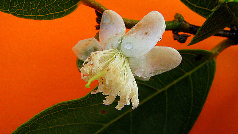 Psidium guineense, Entre Rios, Bahia, Brazil